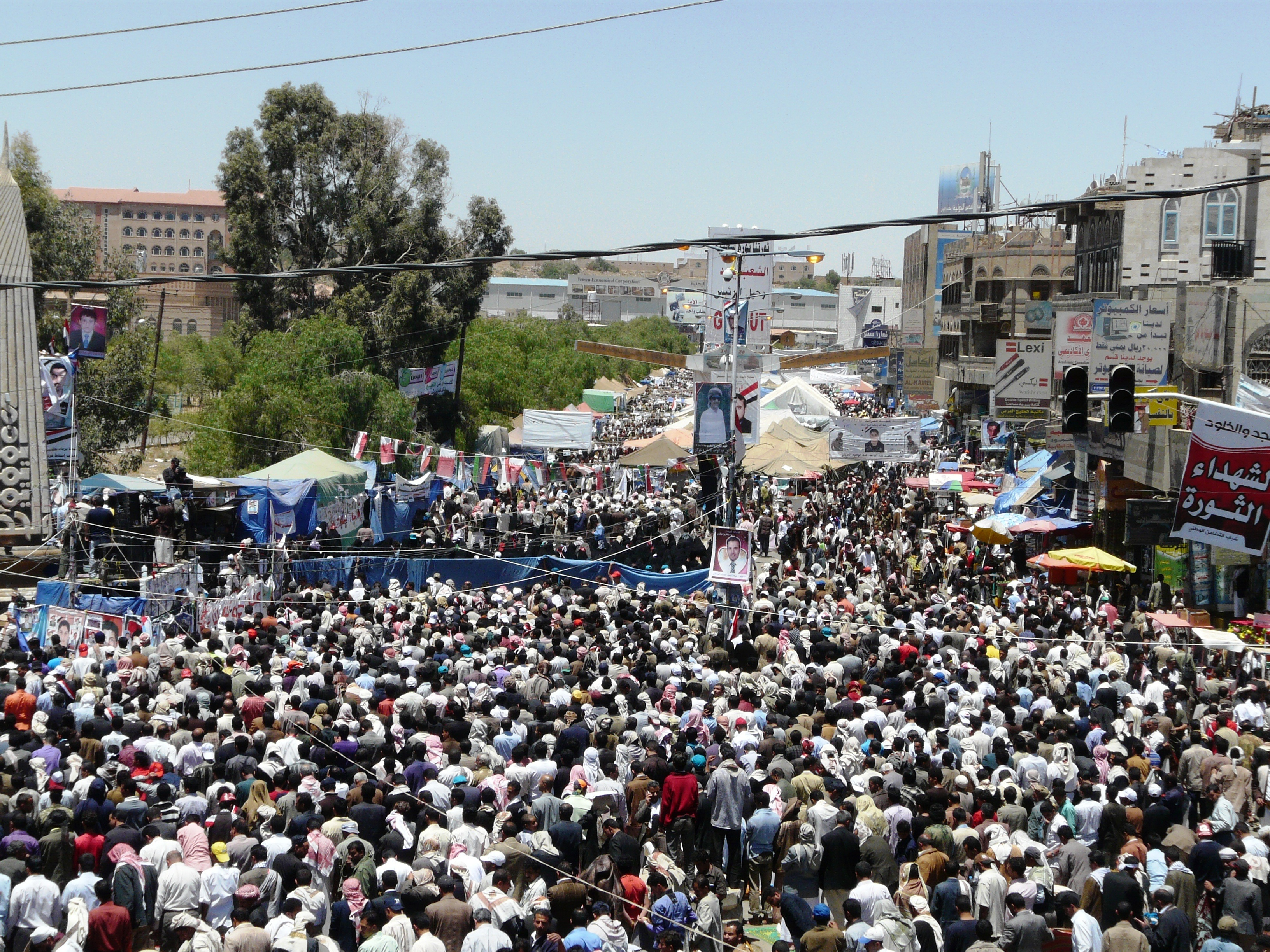 Yemeni protests typical day at Sana'a University. Started with few hundreds in February to several thousands in March and hundreds of thousands on April.